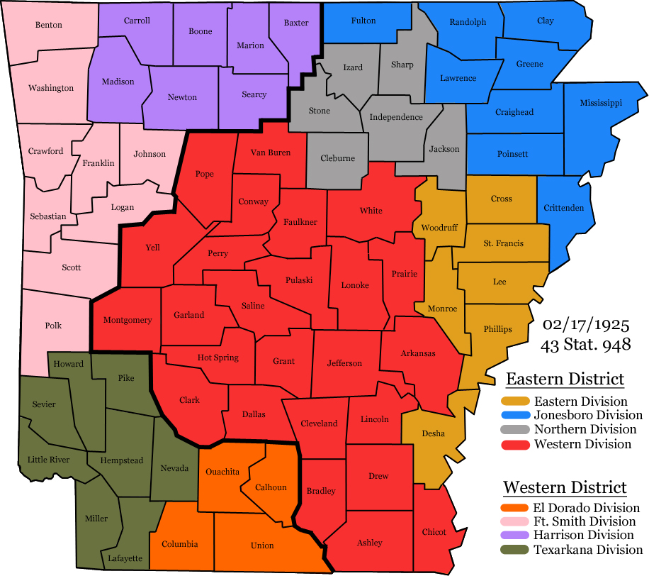 Arkansas districts - 1925